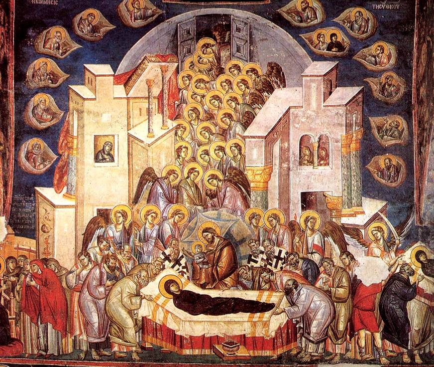 Dormiton of the Theotokos. Church of the Theotokos Peribleptos in Ohrid, Macedonia